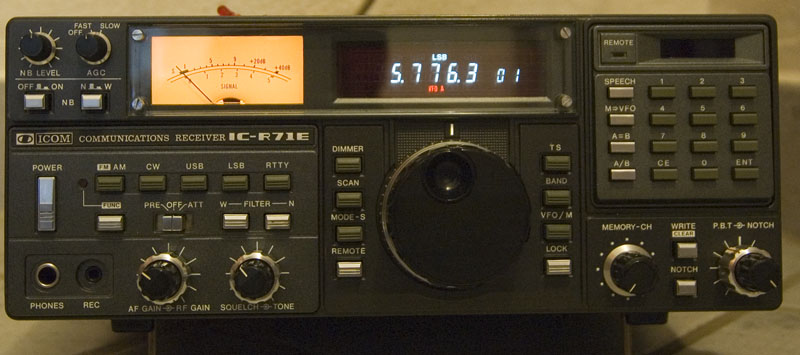 ICom IC-R71E Amateur radio receiver